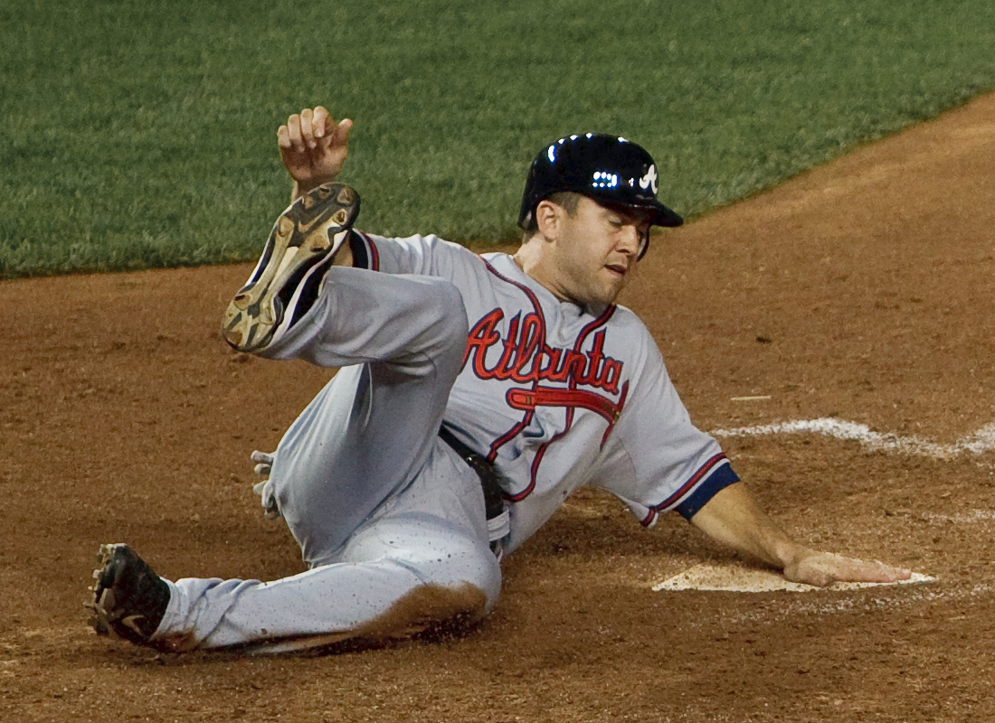 Brandon Hicks